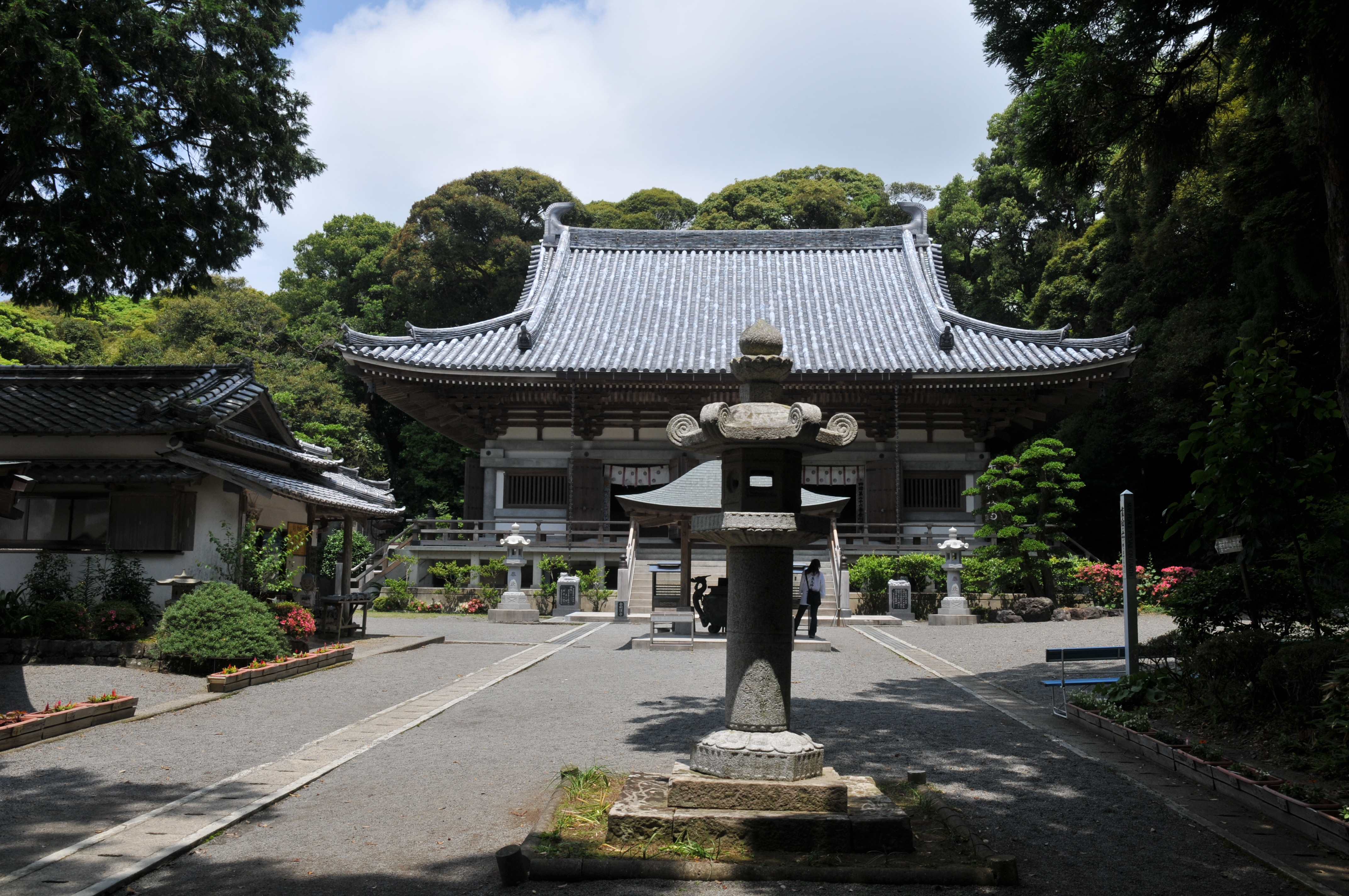 Main temple, Kongōchō-ji